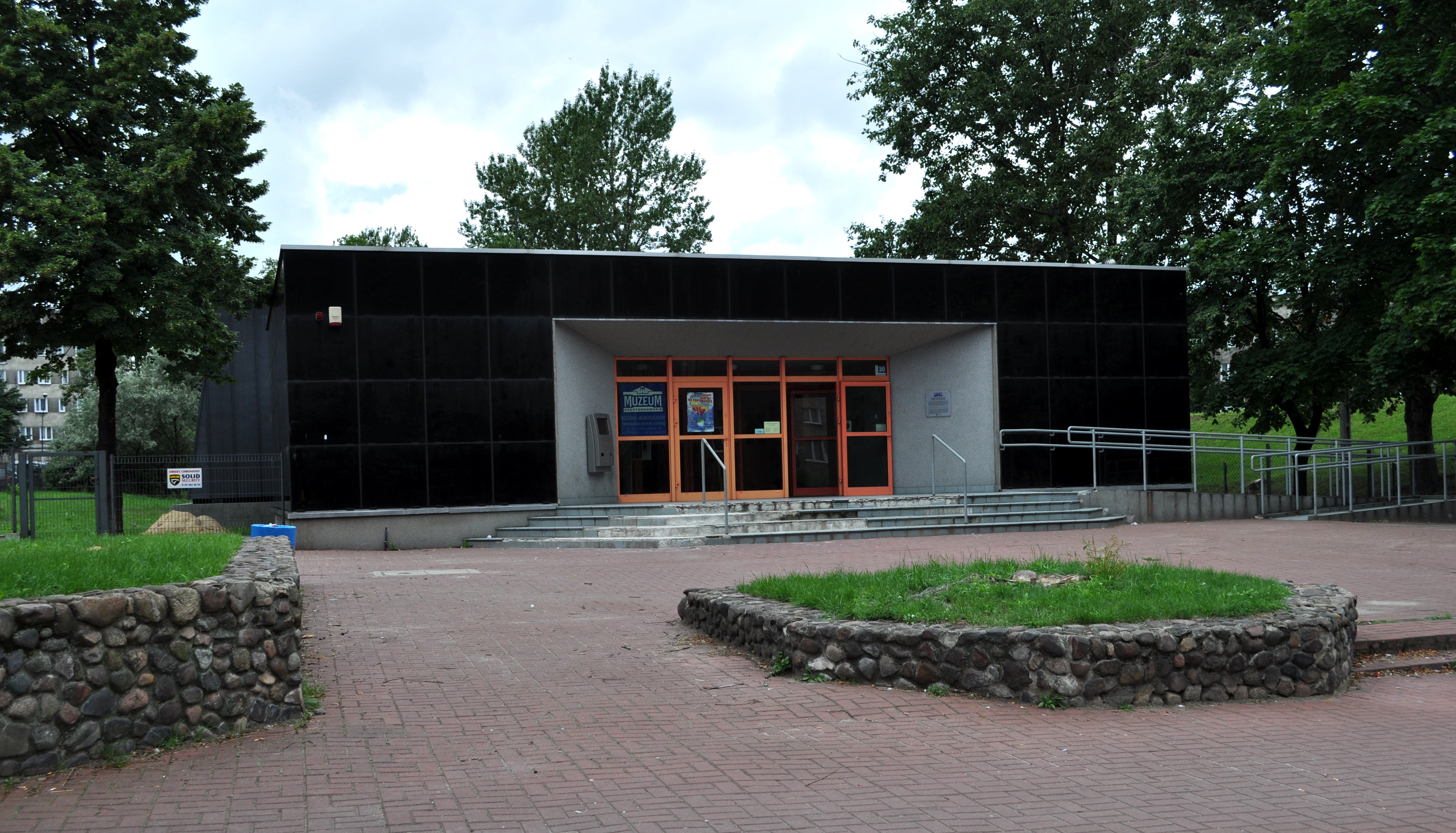 Museum of Archaeology in Częstochowa